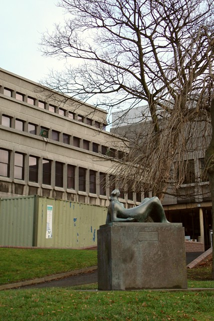 Reclining figure, Castleford Civic Centre Presented to the town by its most famous son, Henry Moore, shortly before his death.